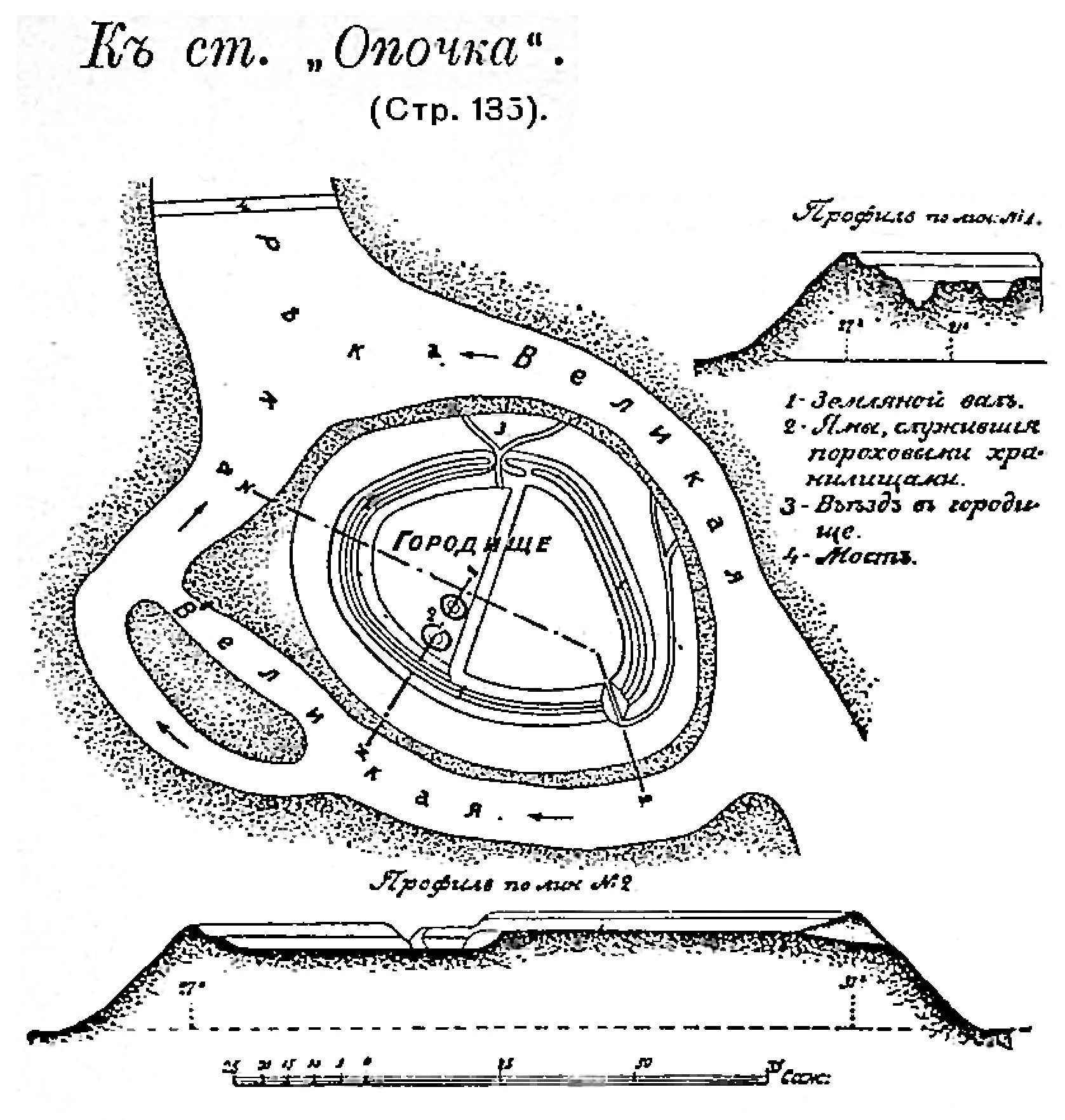 Opochka (Russian: Опо́чка) is a town and the administrative center of Opochetsky District in Pskov Oblast, Russia, located on the Velikaya River, 130 kilometers (81 mi) south of Pskov, the administrative center of the oblast.